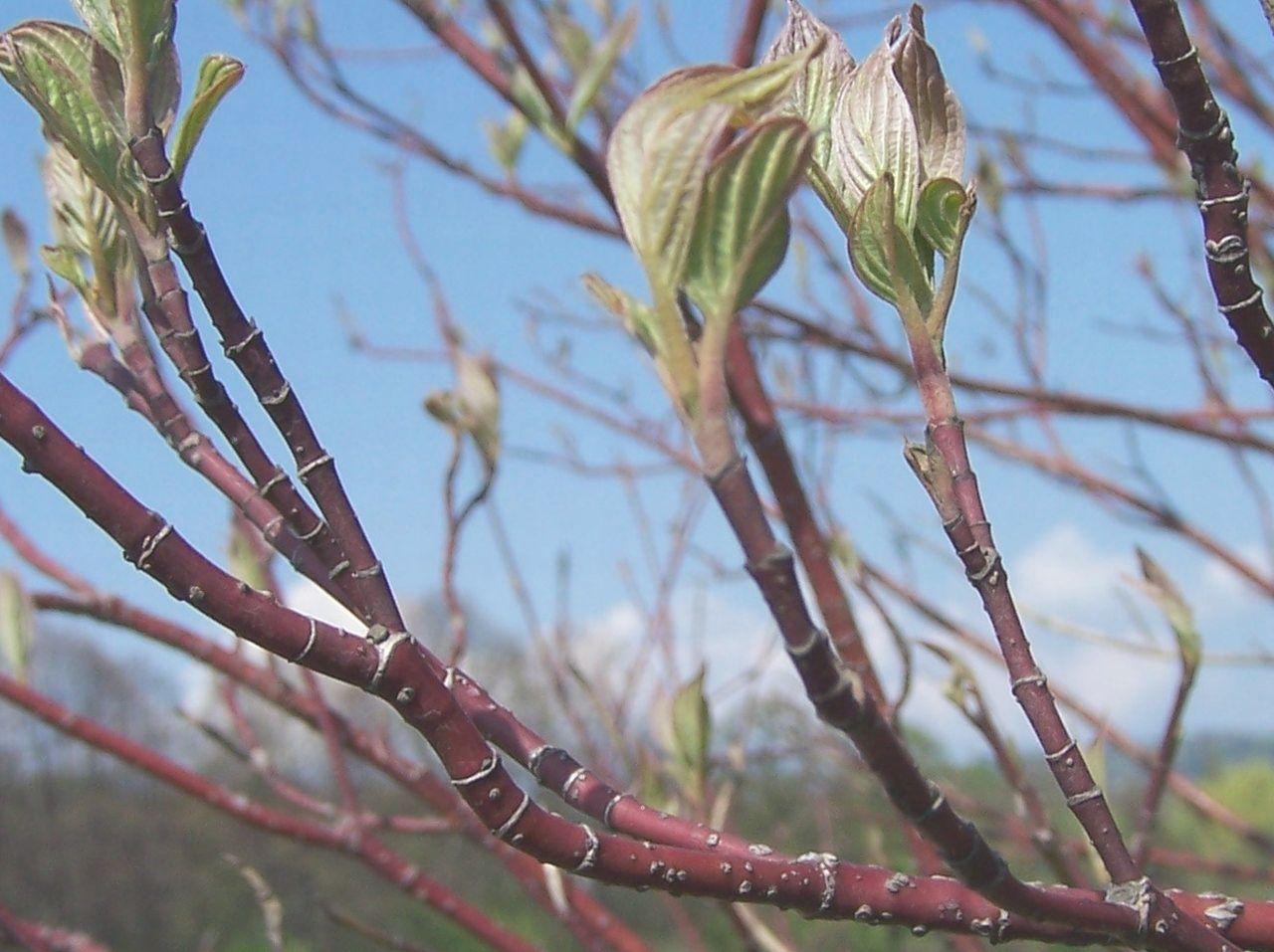 Cornus alba